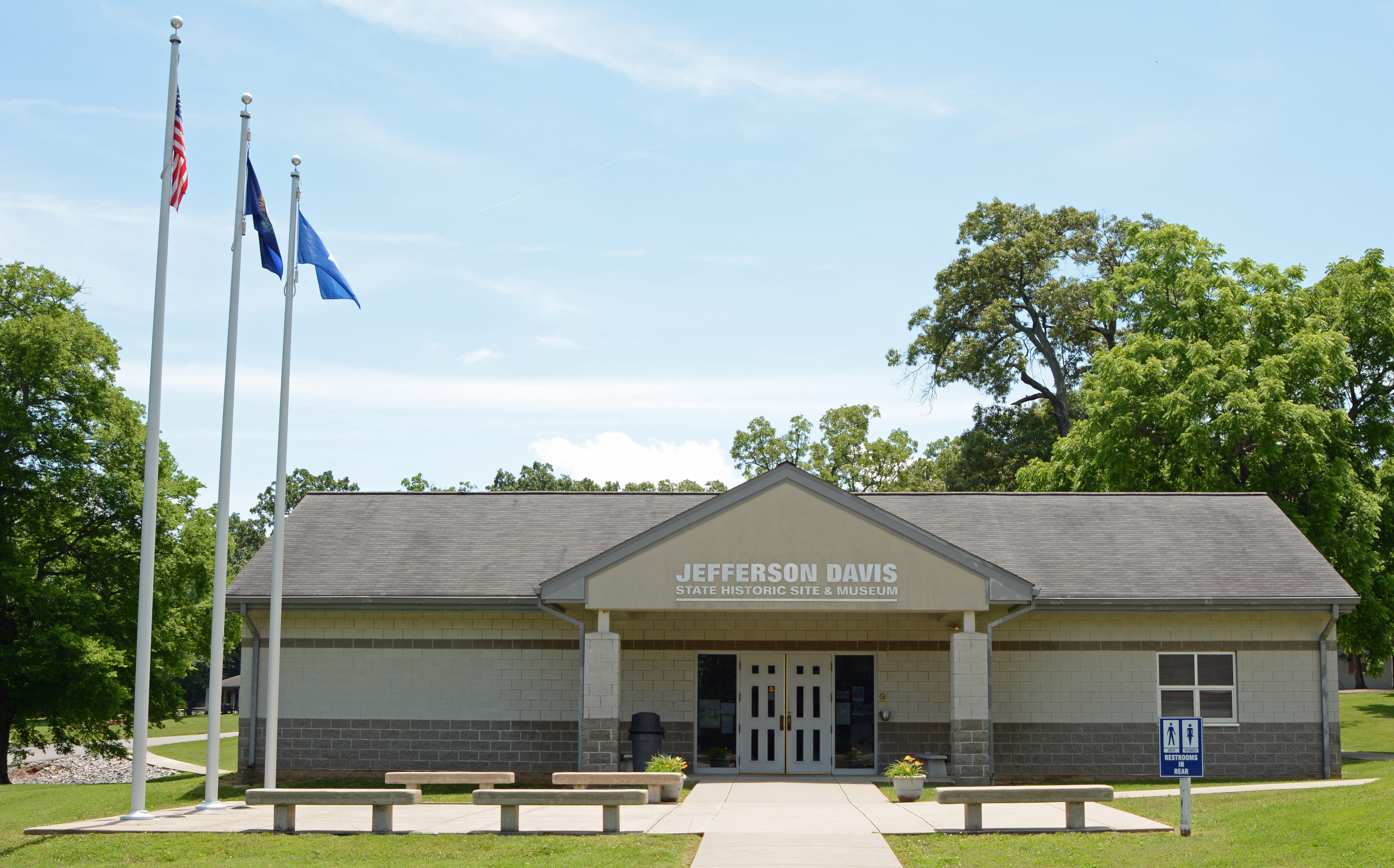 Jefferson Davis State Historic Site & Museum. The blue flag is the Bonnie Blue Flag.